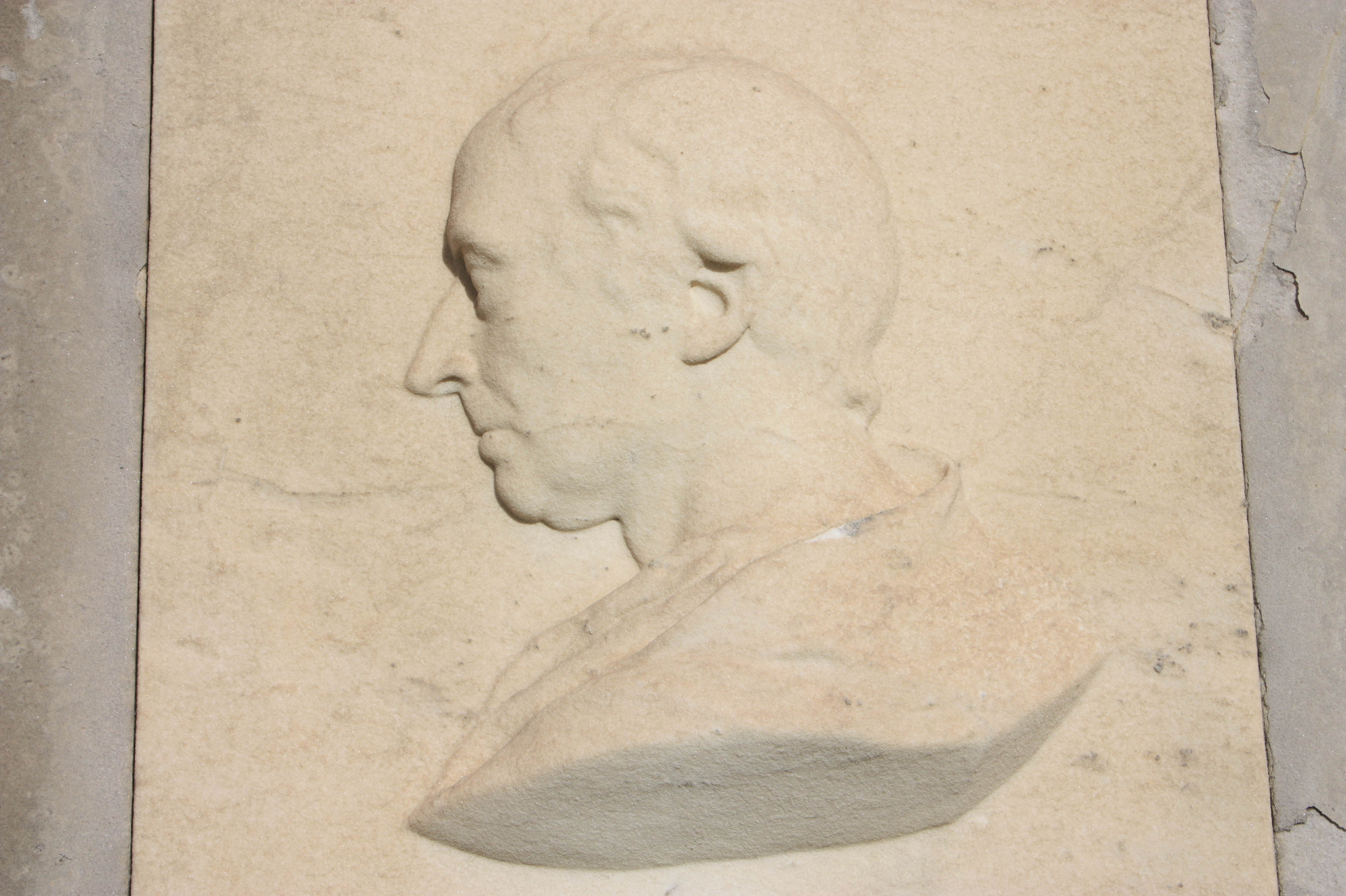 Adam Ferguson as appearing on his grave